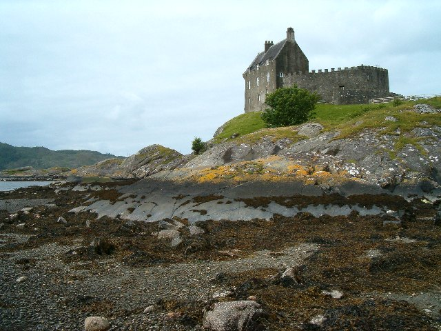 Duntrune Castle from the east A dramatic view of Duntrune Castle taken from the adjacent shore.